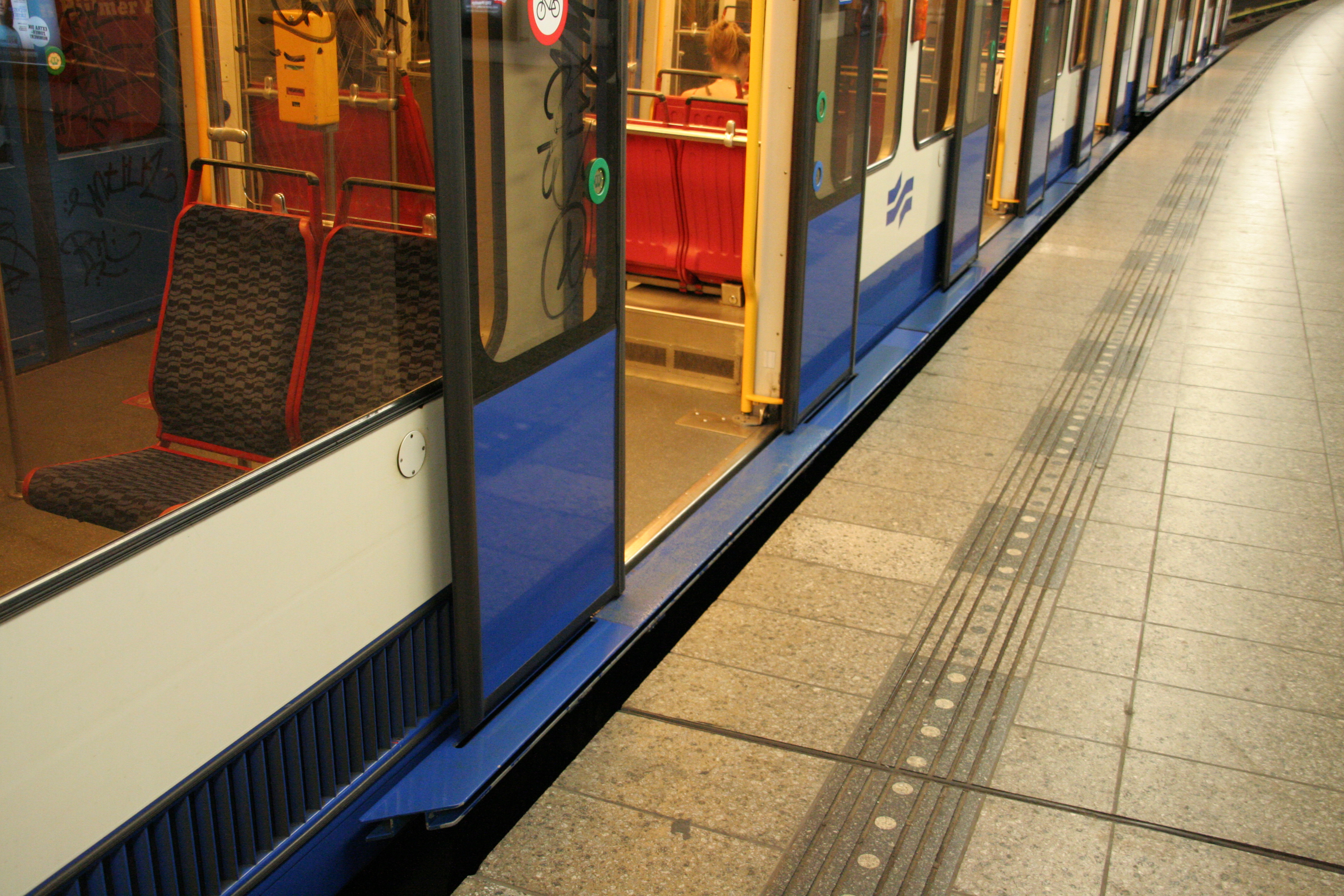 Special system metro Amsterdam